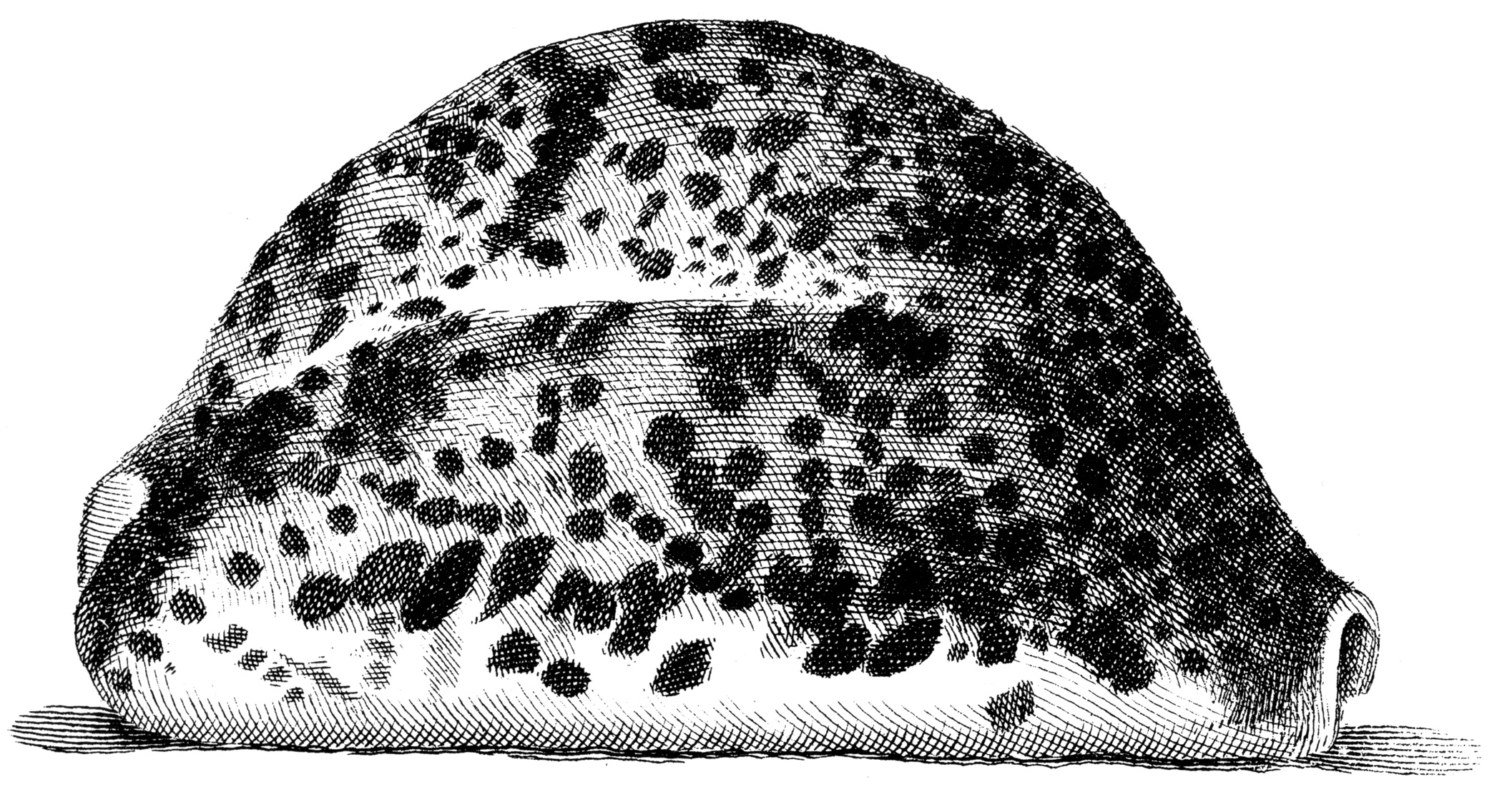 A drawing of Cypraea tigris Linnaeus, 1758